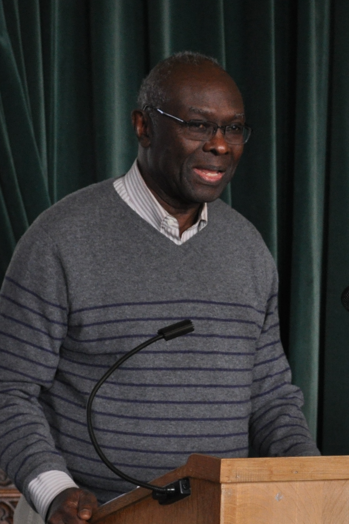 Professor Lamin Sanneh at the Yale-Edinburgh Conference